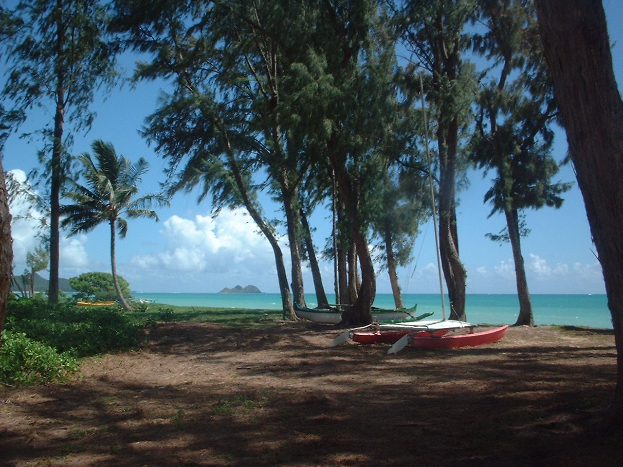 Peaceful and typical scene behind the residential areas of Waimanalo, away from tourists.